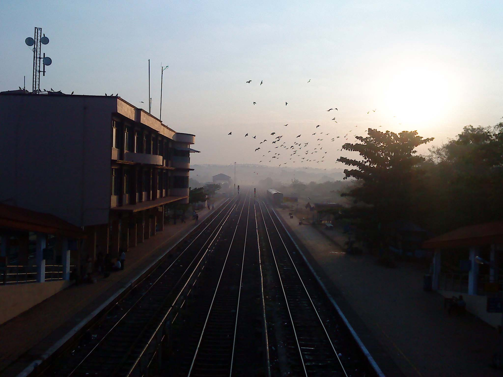 Ratnagiri station on a spring morning